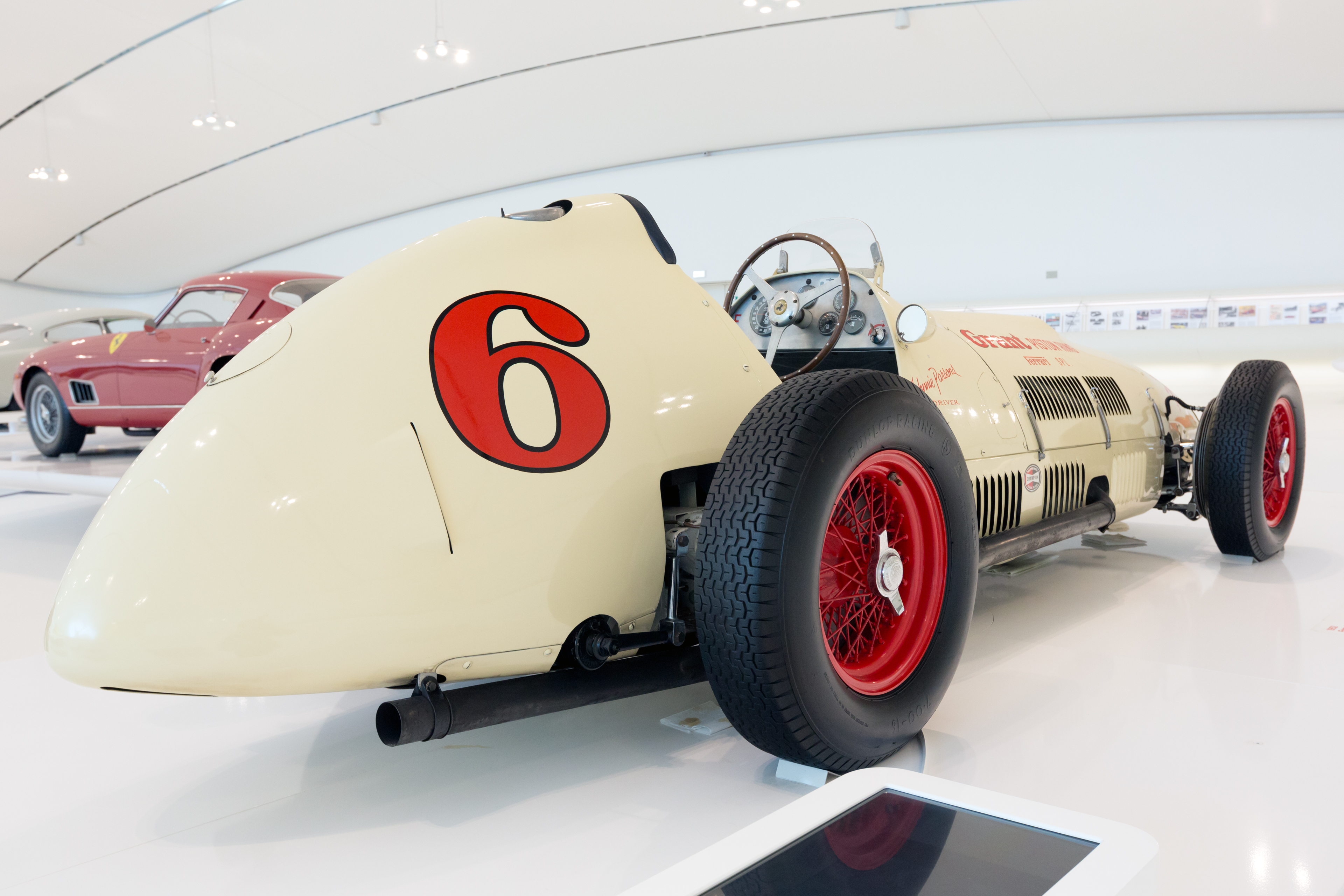 1952 Ferrari 375 Indy